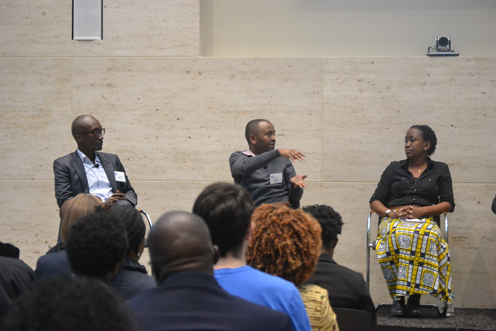 Eisenhower Fellowships 2016